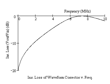 The plot shows the frequency response of the typical equalizer;Other information: To be used in an article on equalizers.